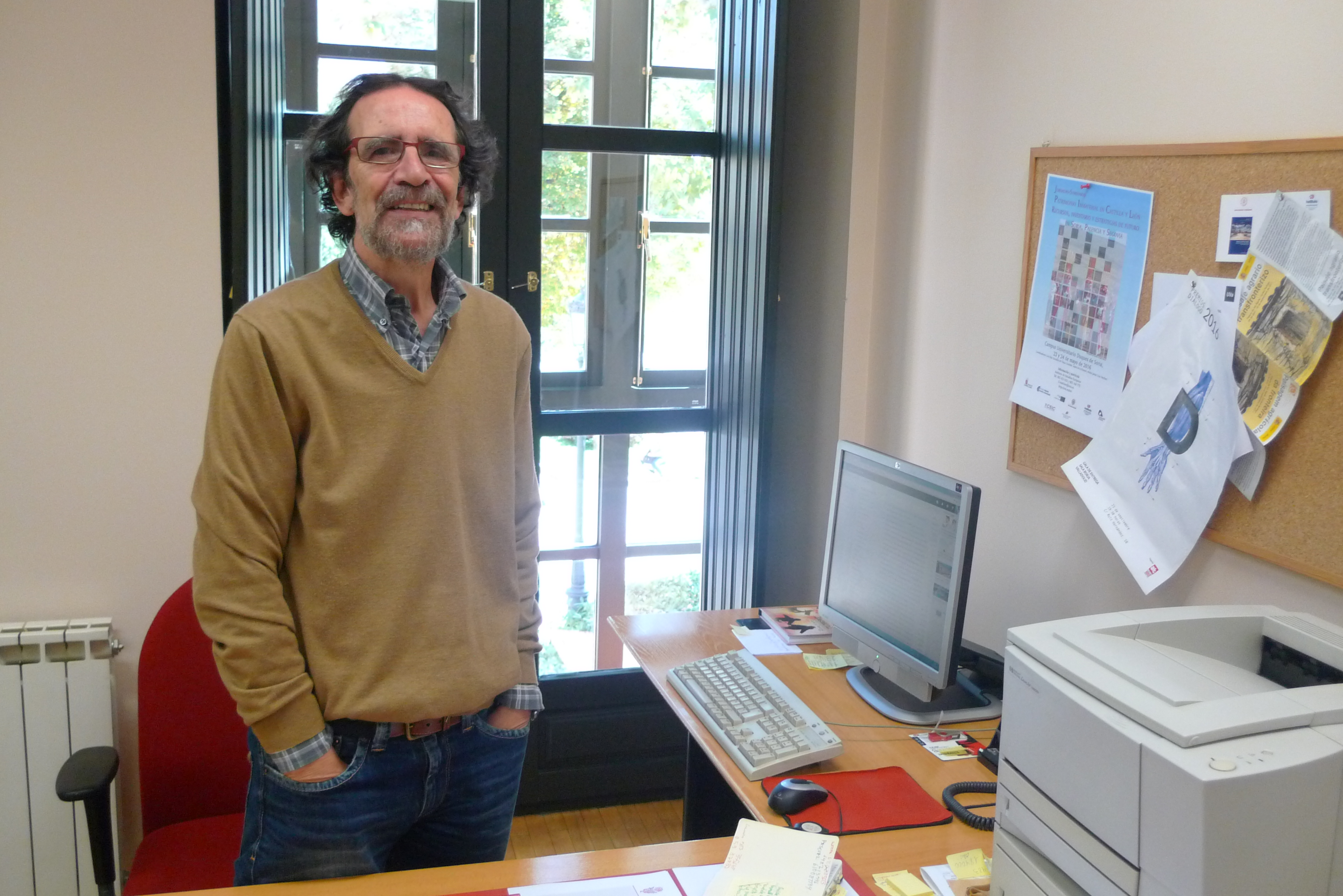 Luis Díaz Viana. Spanish anthropologist and writer. Photography in Instituto de Estudios Europeos, Universidad de Valladolid, Spain. October 2016